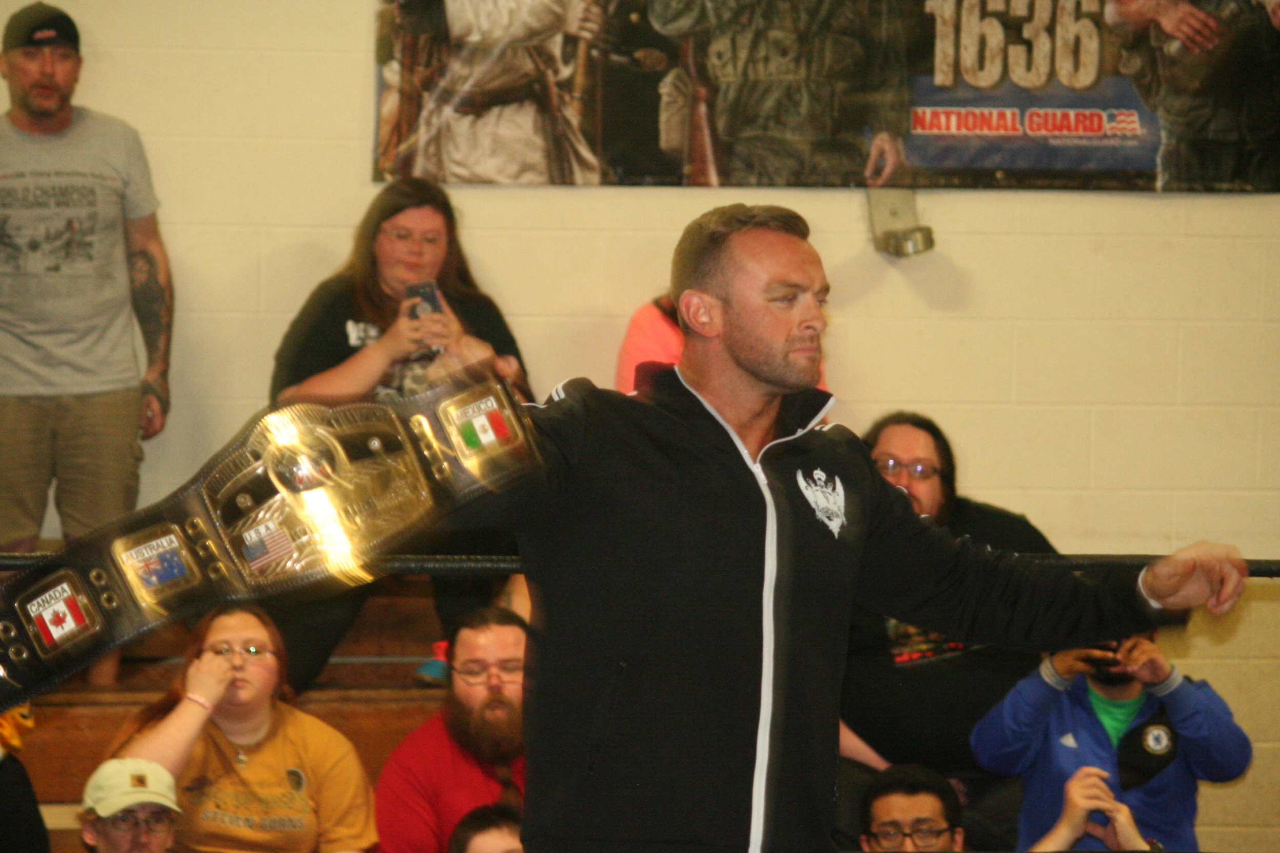 Nick Aldis as the NWA World Heavyweight Champion at an NGW show in Newport, Tennessee, on April 22, 2018.